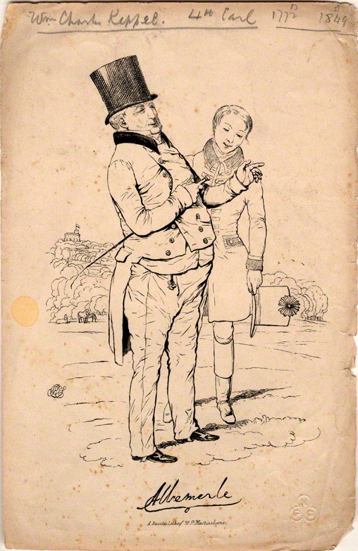 William Keppel, 4th Earl of Albemarle (1772-1849)